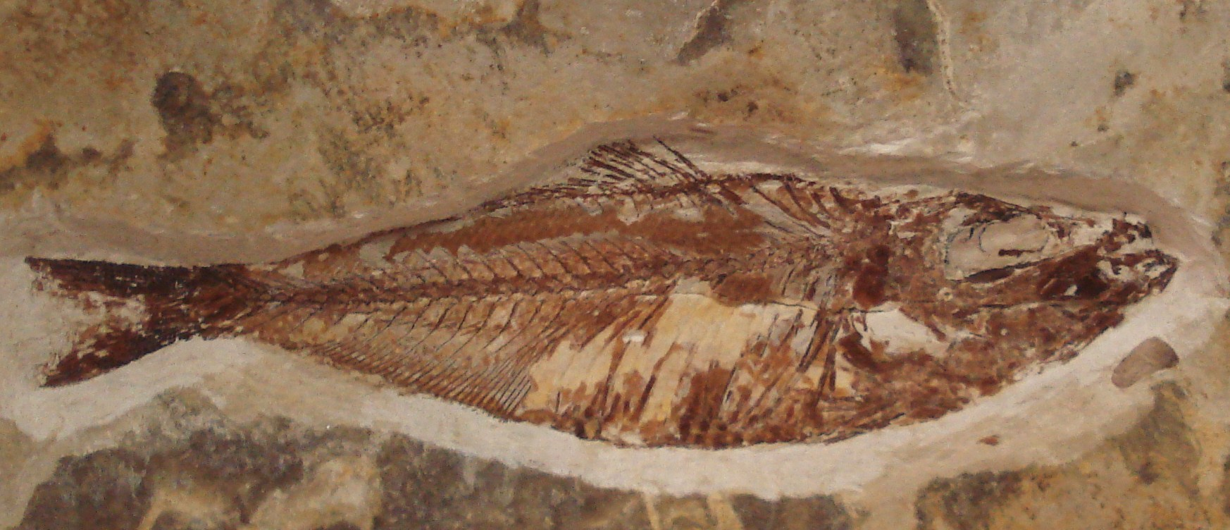 Fossil of Sedenhorstia dayi, an extinct fish